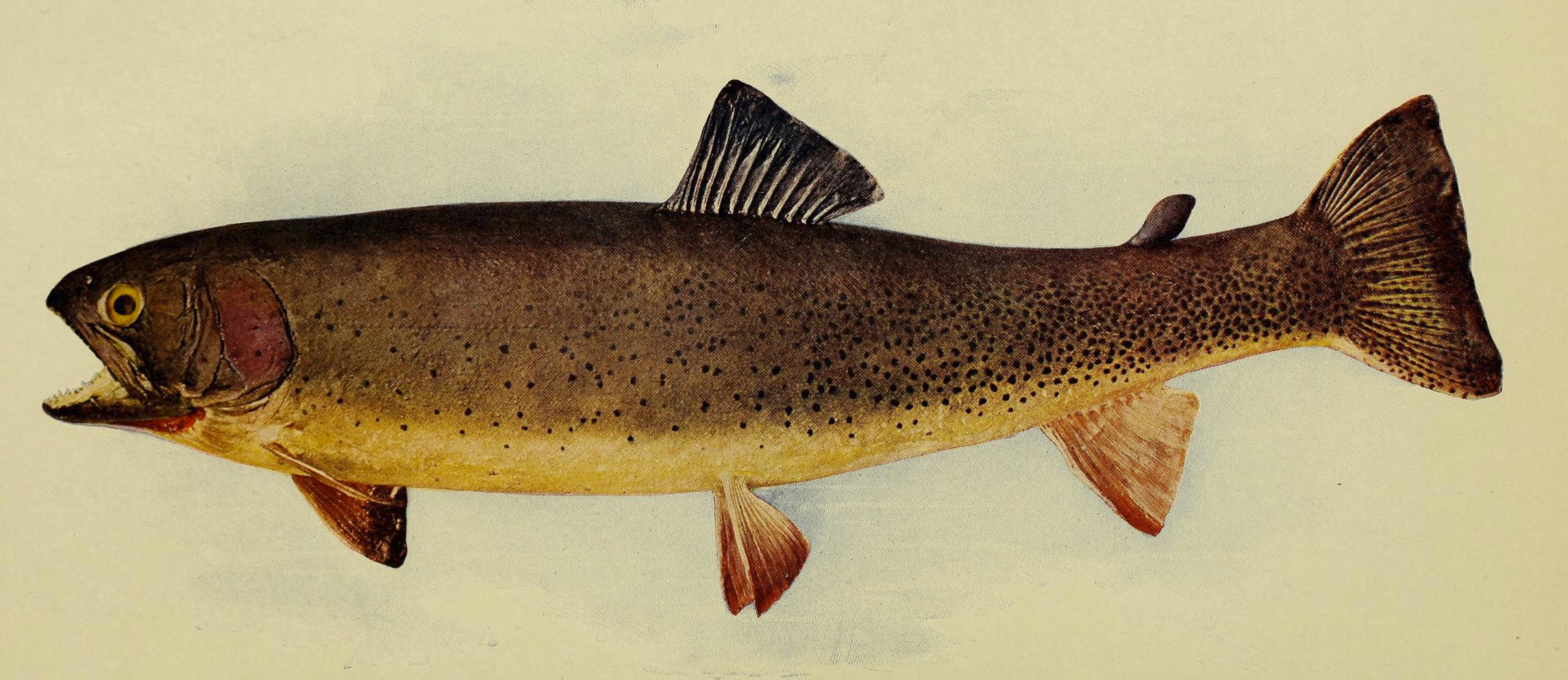 Oncorhynchus clarkii bouvieri (Yellowstone cutthroat trout)